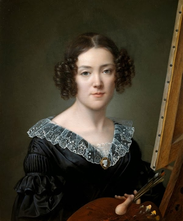 Self-portrait in Uffizi Gallery 1839